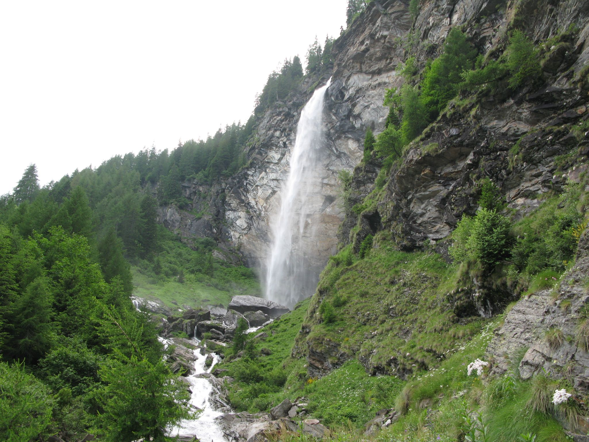 Waterfall in the Peccia valley